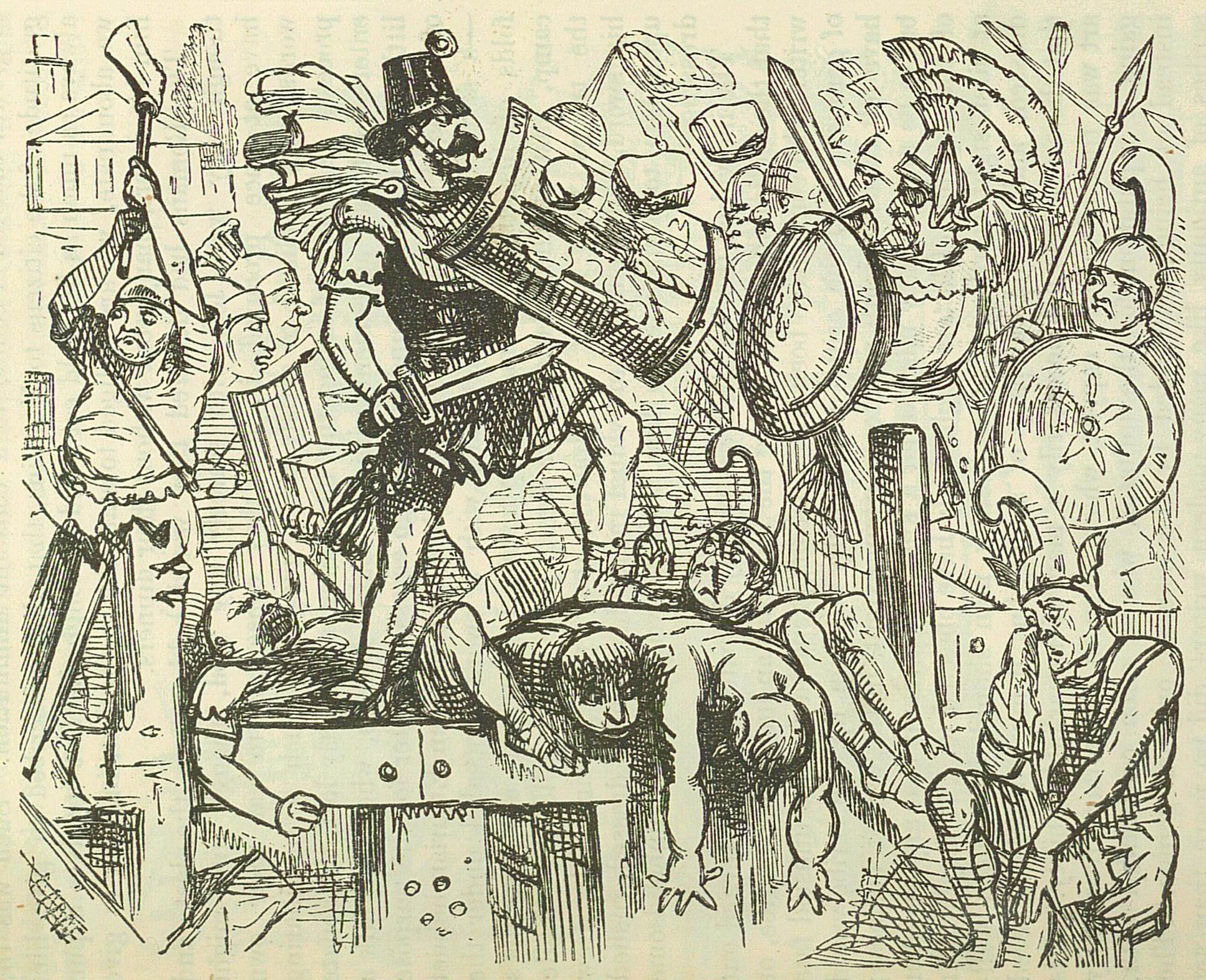 Image by John Leech, from: The Comic History of Rome by Gilbert Abbott A Beckett. Bradbury, Evans & Co, London, 1850s Horatius Cocles Defending the Bridge